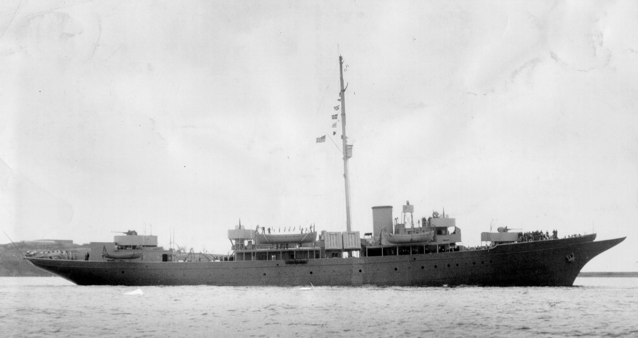 Photo of the USCG Sea Cloud, the first US military ship to be fully integrated. It was commanded by Lt. Carlton Skinner, future Governor of Guam